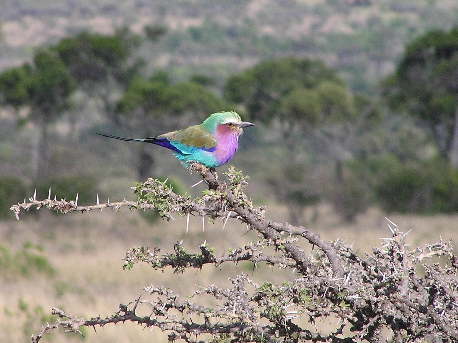 Lilac Breasted Roller in Masai MAra, Kenya